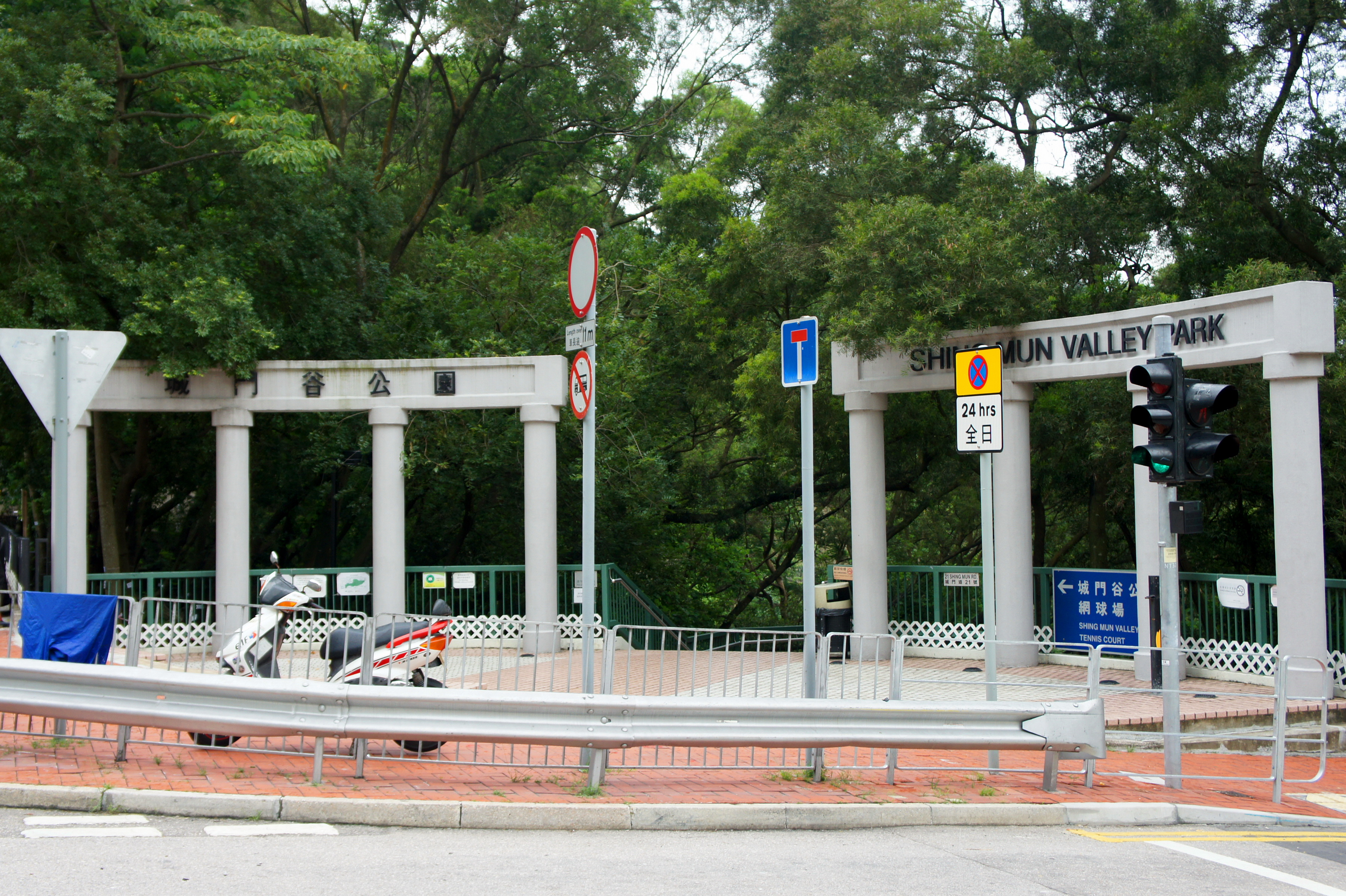 The north entrance of the Shing Mun Valley Park North Garden, Tsuen Wan, New Territories, Hong Kong.